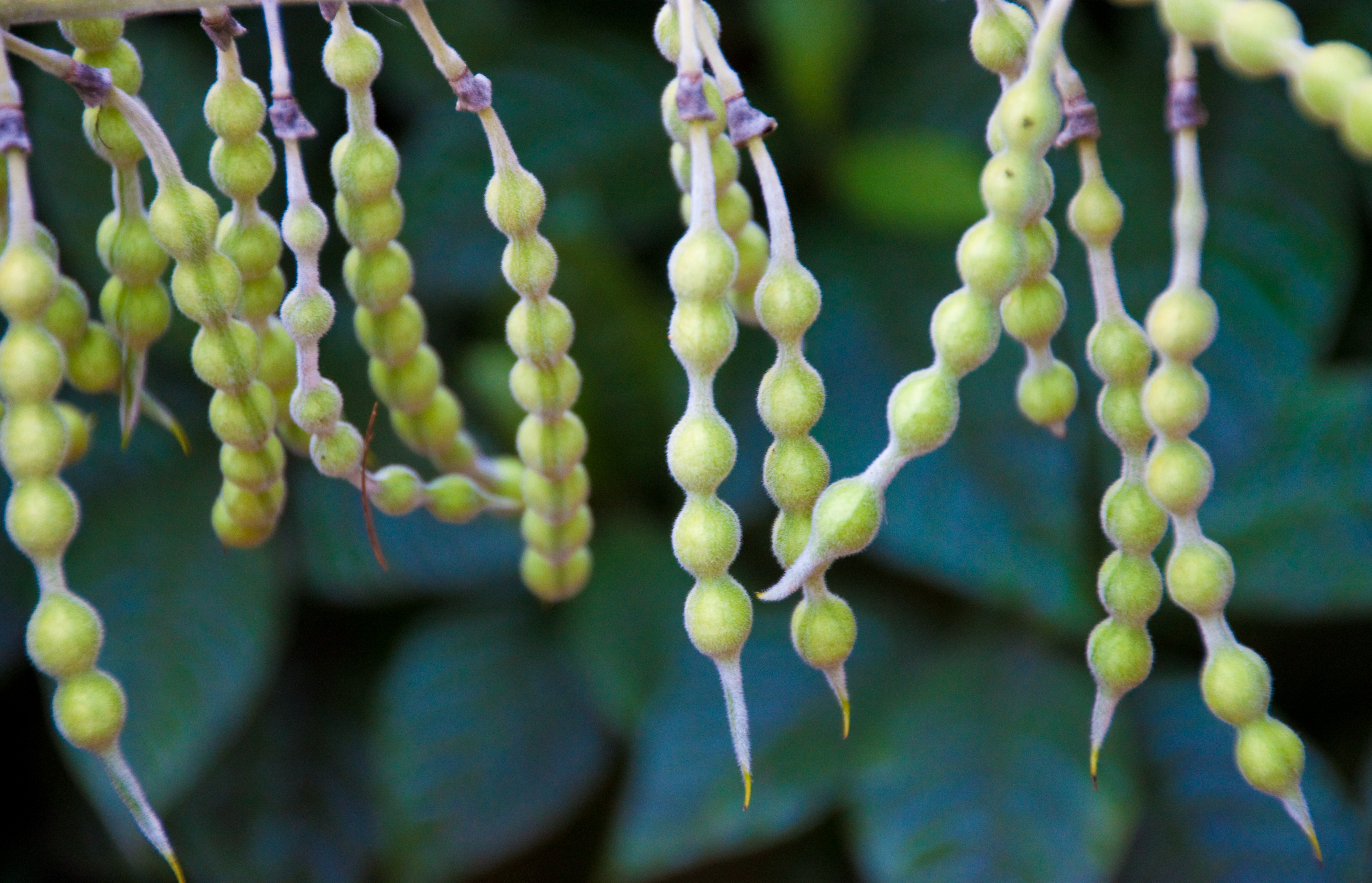 dangling pods, necklacepod (Sophora tomentosa).